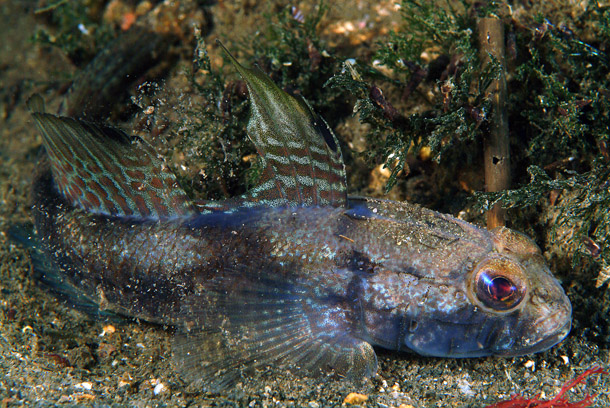 Gobius niger male photographed in Tuscany (Italy) Photo by Stefano Guerrieri.